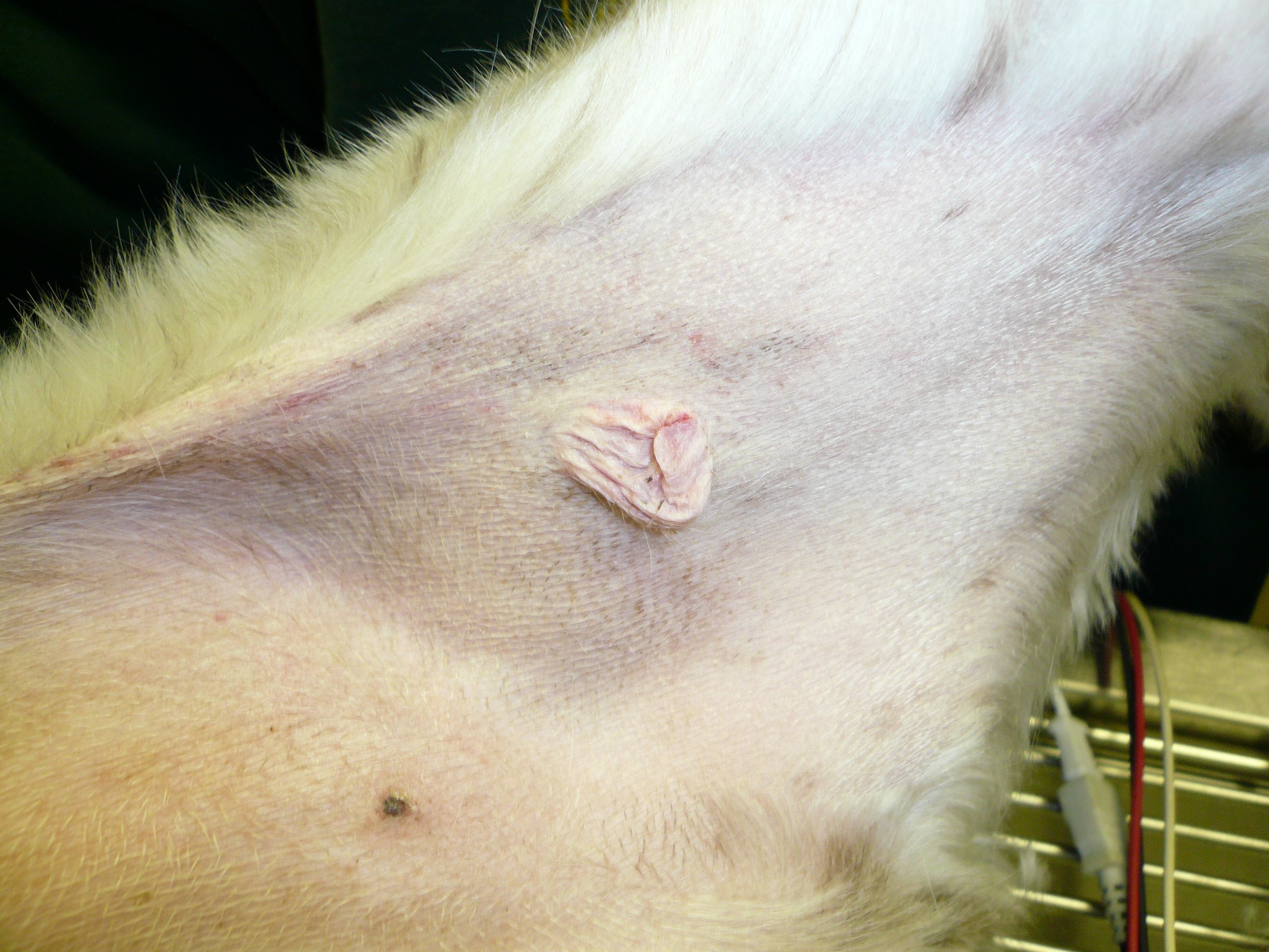 Mast cell tumor on the inner thigh of a 10 year old Springer Spaniel.